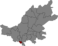 Location of el Rourell in Alt Camp